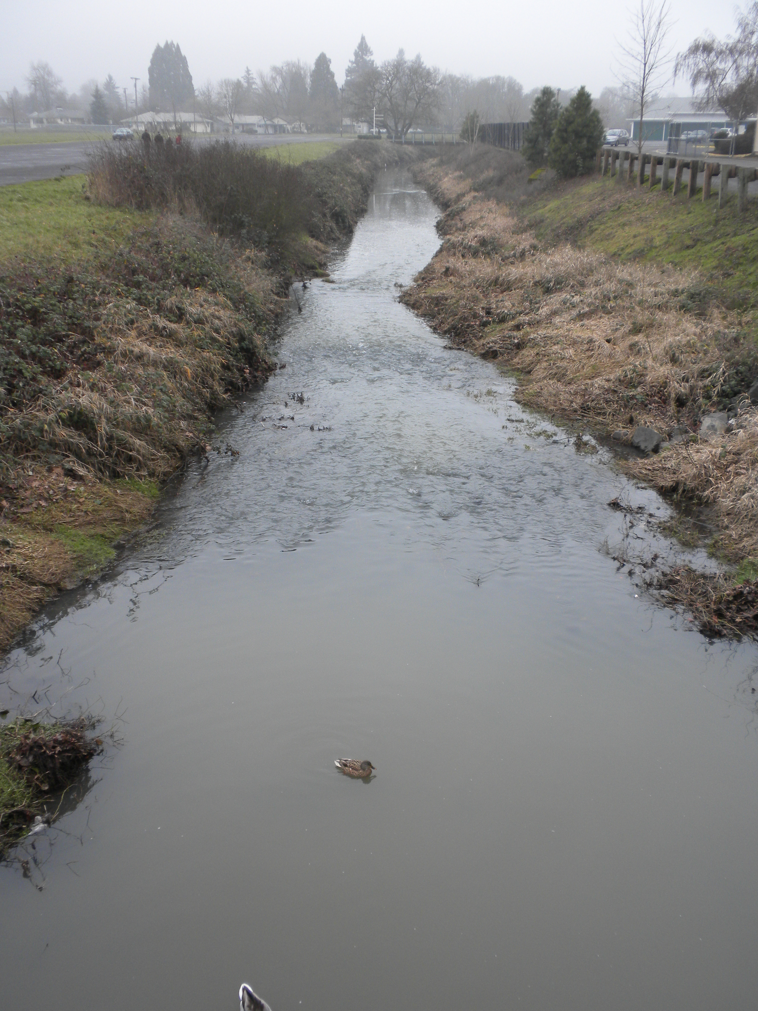 Amazon Creek near Lane Events Center